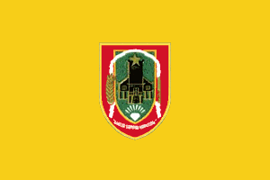 Flag of South Kalimantan, See legal regulation about the flag.